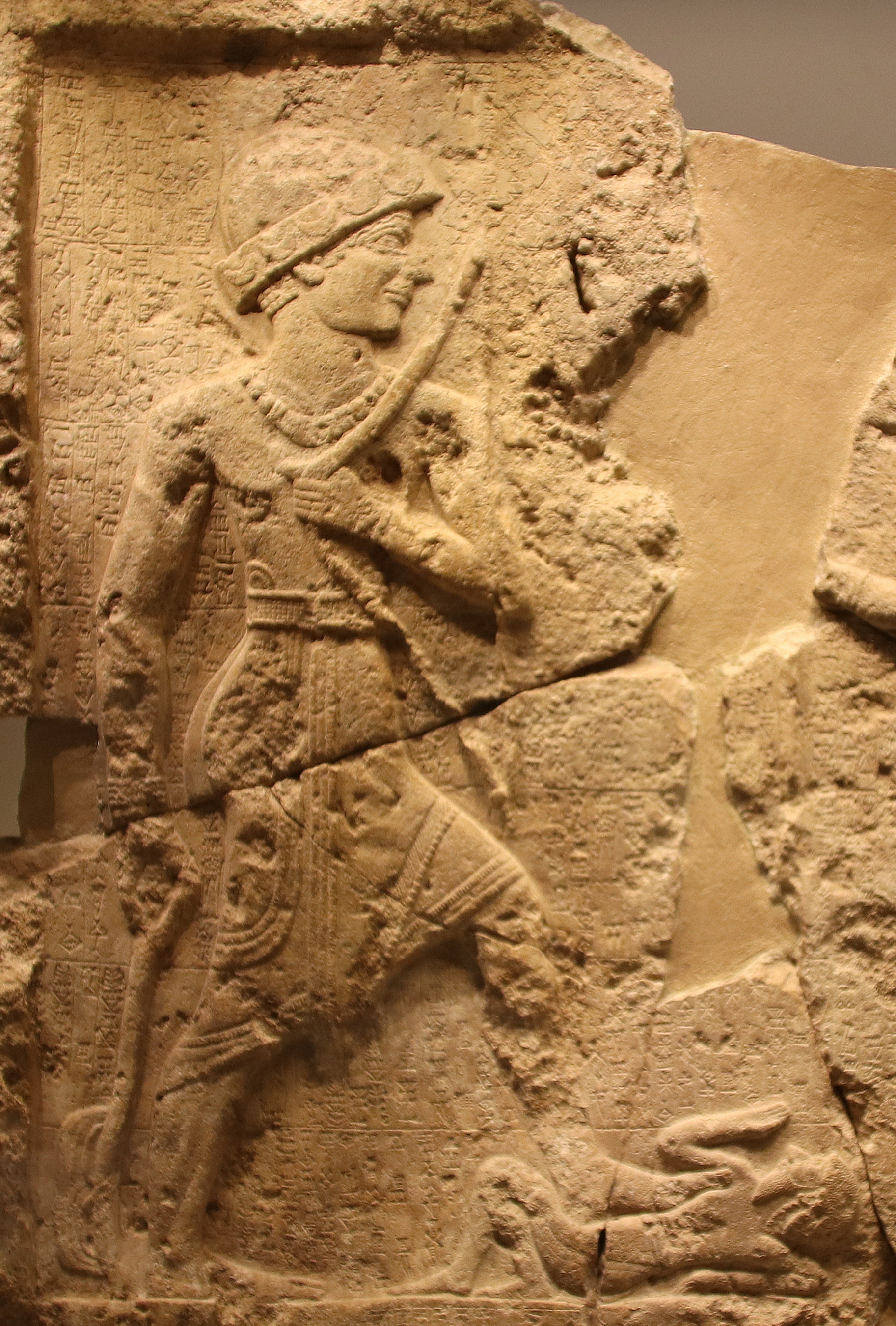 Rock Relief of Iddin-Sin, King of Simurrum